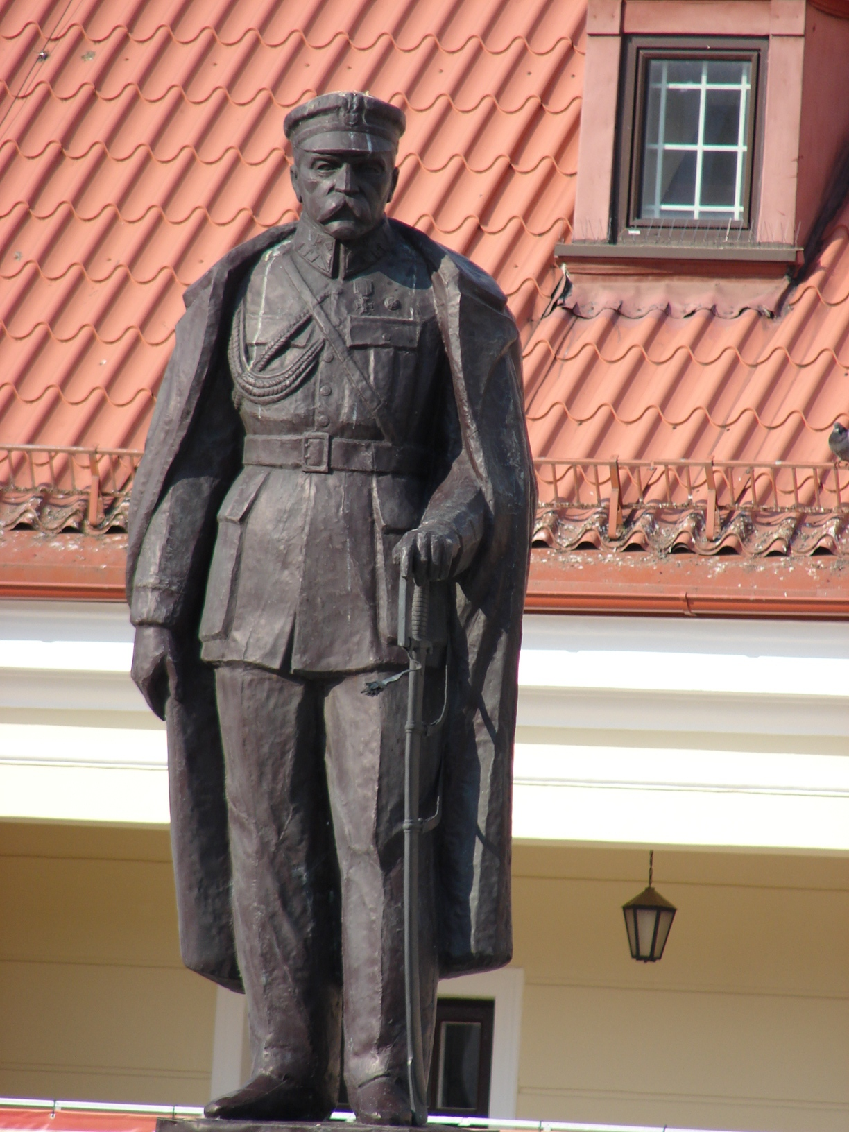 Jozef Pilsudski's monument in Białystok, Poland